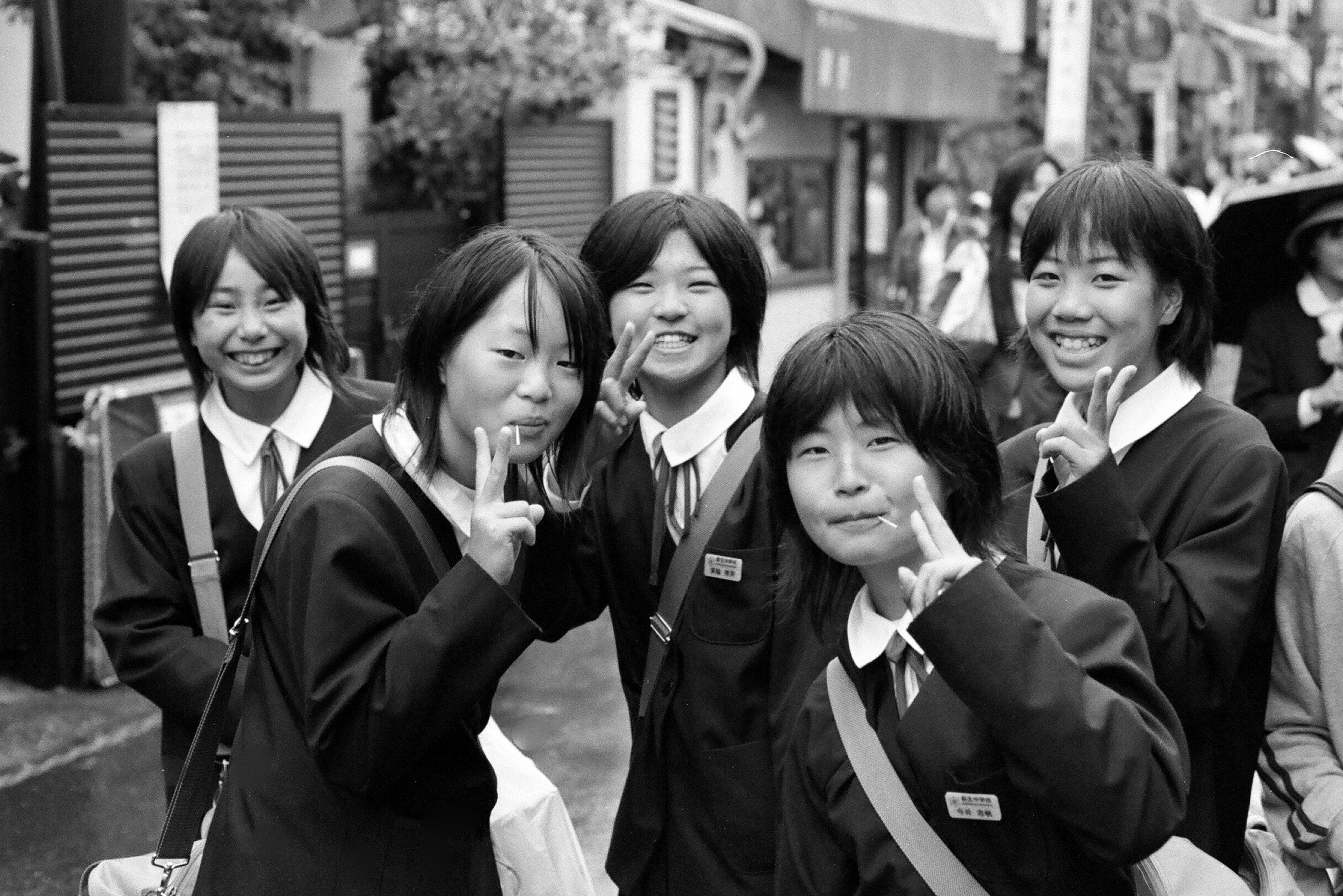 A group of school girls ham it up for the camera in Kamakura.